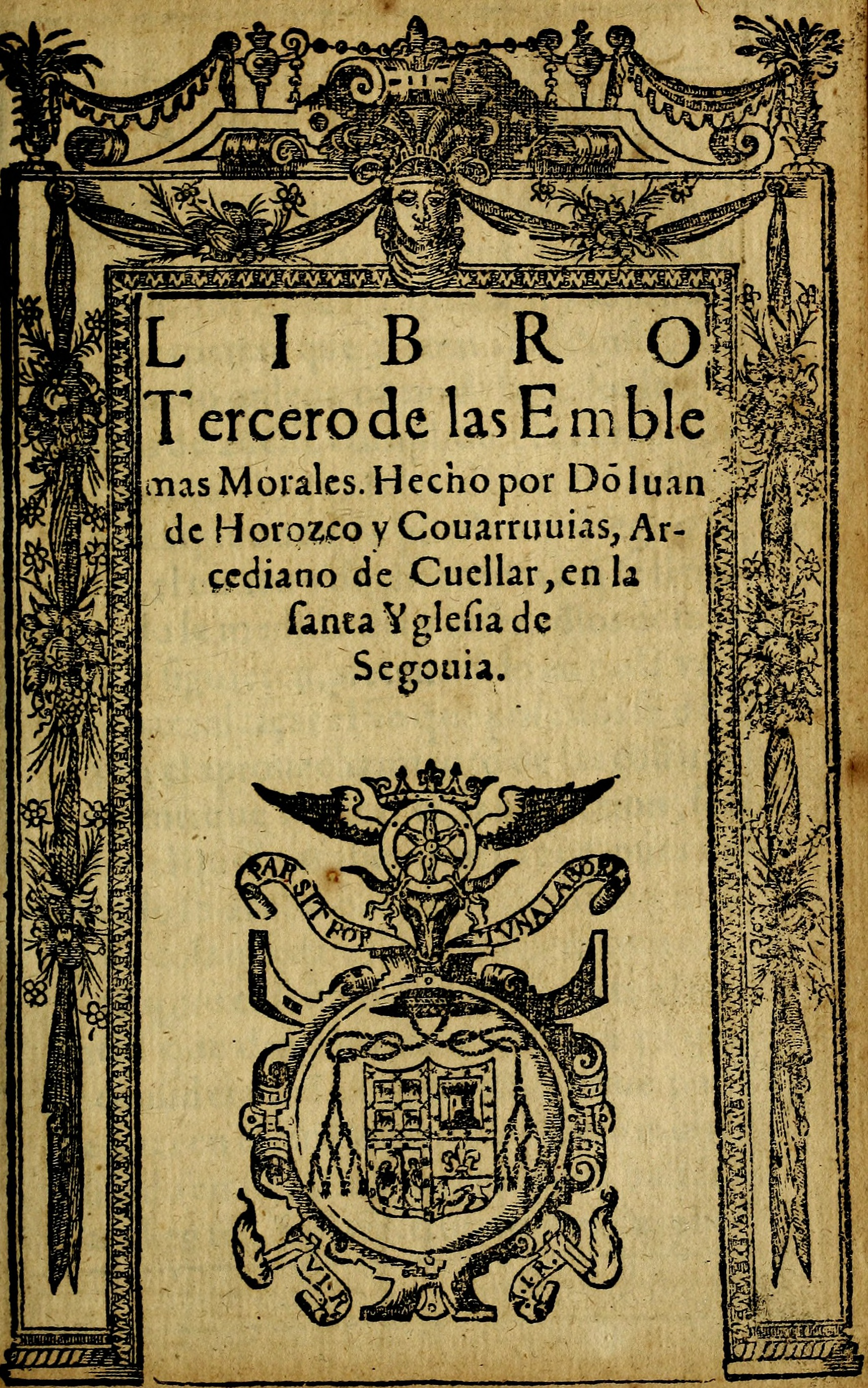 Title: Emblemas morales de Don Iuan de Horozco y Couarruuias Arcediano de Cuellar en la Santa Yglesia de Segouia. Year: 1591 (1590s) Authors: Horozco y Covarrúbias, Juan de, fl. 1589-1608 Covarrubias y Leyva, Diego de, 1512-1577 Subjects: Emblems Emblem books, Spanish Publisher: En Segouia. : Impresso por Iuan de la Cuesta. Text Appearing Before Image: JUe¡íPor coa fu amparo fúñente la honra y grandeza detwal. ¡ vn Rey no que tan eítendido cibui a en ía«a yeníeíiono,auiendo por fi defcubierto yconquiílado tanta parte dei nueuo mé I 3 mundo Fin ¿lO FINDEL LIBRO fcgundo de las £ mblemas Morálcs.Hecho por Don luán de HorofcjcoyCouarruuia$,ArcedianodeCLiellar,en la fanta Ygleíia deSegouia. • Text Appearing After Image: •—!- ZH P ROLOGO, ¡)